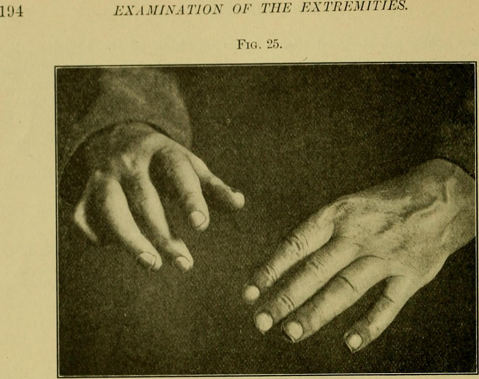 Title: A practical treatise on medical diagnosis for students and physicians Year: 1904 (1900s) Authors: Musser, John Herr, 1856-1912 Pancoast, Henry Subjects: Diagnosis Diagnosis, Radioscopic Diagnosis Publisher: Philadelphia and New York : Lea Text Appearing Before Image: he course of syphilis ; and in sclerodactyly. The nails in some cases of Raynauds disease become dry, scaly, andcracked, or hypertrophied. The growth is arrested on the paralyzed side in the hemiplegia fromcerebral apoplexy. This is tested by staining the nails of the twohands at the same level with nitric acid ; the relative position of thestain upon corresponding nails of the two hands will show whether therehas been growth or not. Return of functional power is indicated byrenewed growth. THE FINGERS. In gout and rheumatism the joints of the fingers are enlarged and pain-ful. The swellings of the joints of each condition cannot well be dis-tinguished. In gout, tophi, hard, white, sometimes glistening masses arelikely to be present in the joints or along the tendons, on account ofgreat accumulation of sodium urate. They are more prominent on thedorsal surface of the joints, and sometimes break through the skin, so thatthe chalk-like concretion exudes. It was said by Sir Thomas Watson Text Appearing After Image: Subacute or chronic articular rheumatism.